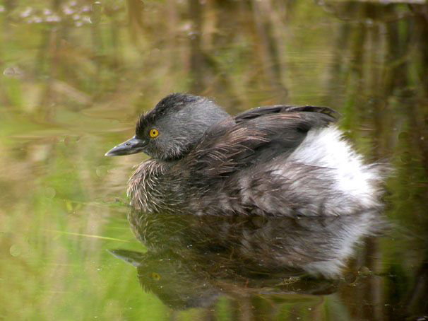 Least Grebe (Tachybaptus dominicus) The smallest of our grebes, and the final one for our list of North American grebes. It was amazing to see how much small it is than the Pied-billed Grebe. The dark forehead and bill suggest that this is a breeding plumage adult. Won the prize for the cutest bird on the Texas trip.